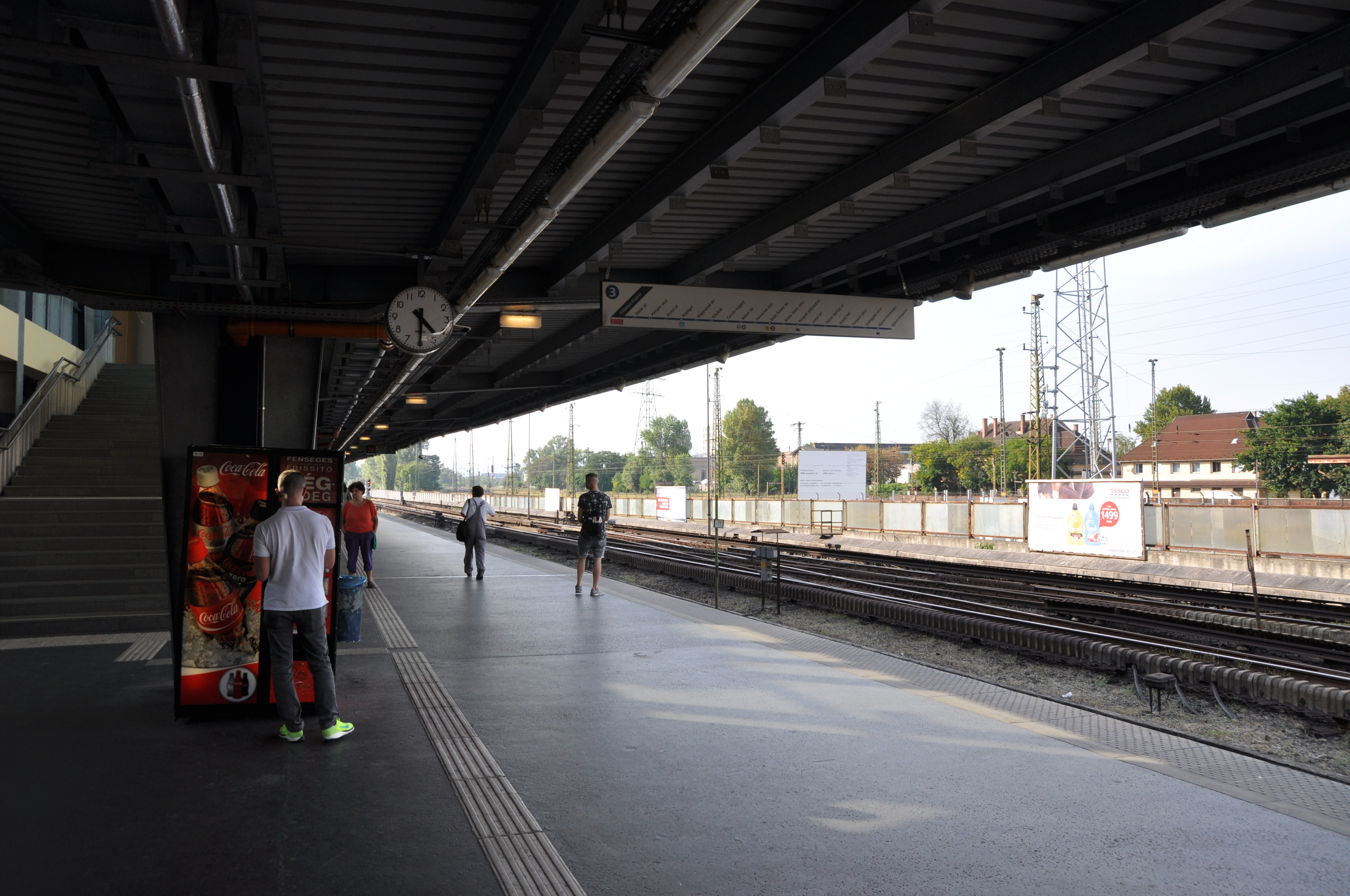 Budapest, metró 3, Kőbánya-Kispest